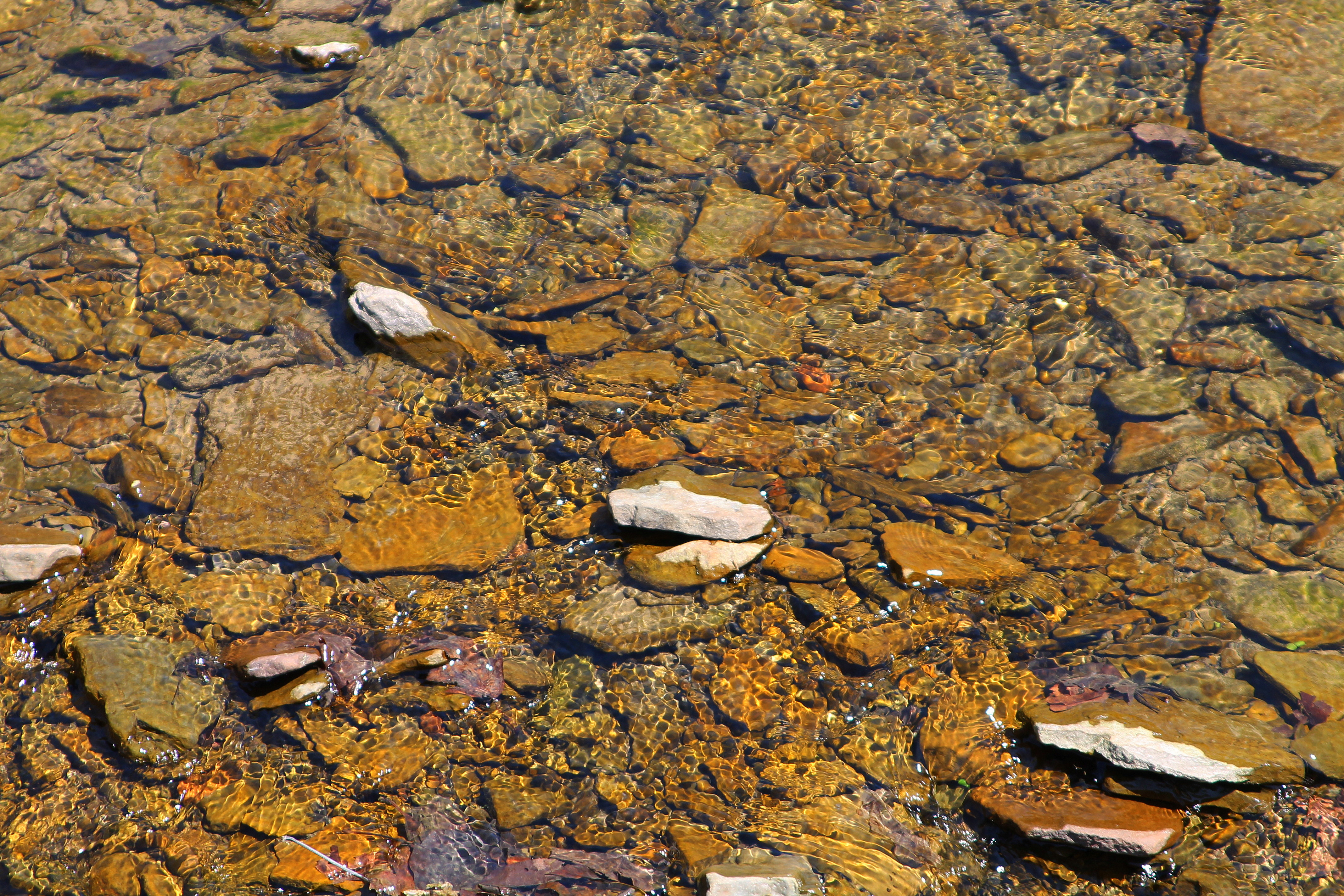 Detail of the streambed of Shepman Run, a tributary of Little Muncy Creek in Lycoming County, Pennsylvania.